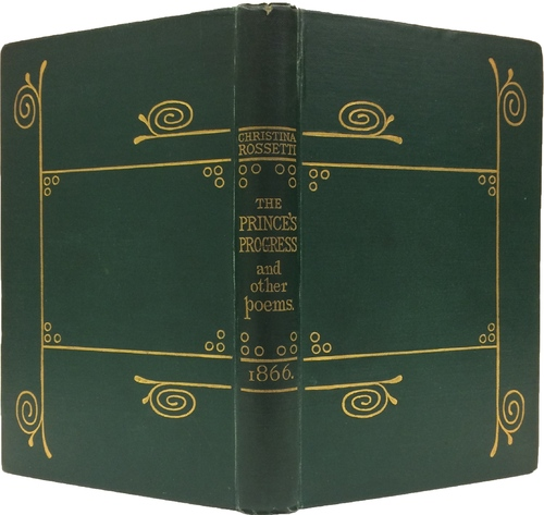 This binding was designed by Dante Gabriel Rossetti. In this publication, he employs a combination of minimalist motifs and contemporary technology, seen specifically in the gold stamping. The gold design makes reference to clasps and nailheads on medieval books, and it is repeated on both the cover and back of the book